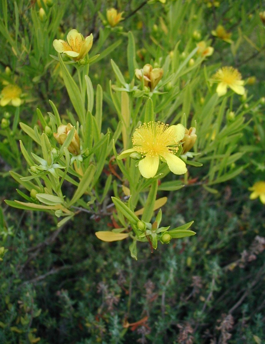 Hypericum erectum: Flowers and leaves (cultivar: 'Gemo')